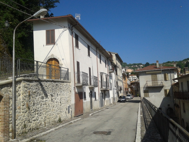 Old town of Sante Marie, Abruzzo, Italy